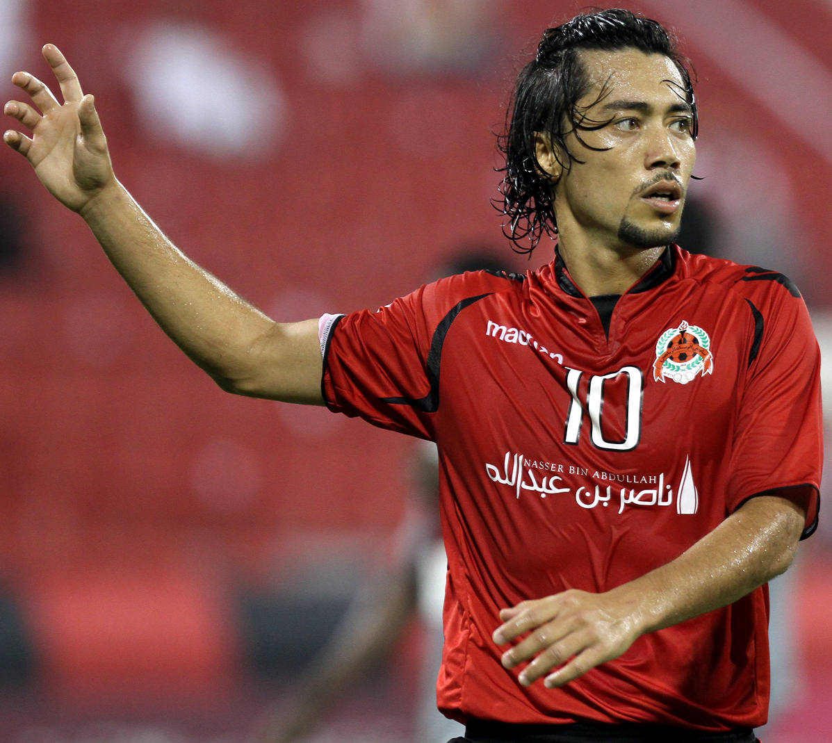 Al Rayyan's Brazilian professional Rodrigo Tabata in action during the Qatar Stars League. Picture by Vinod Divakaran